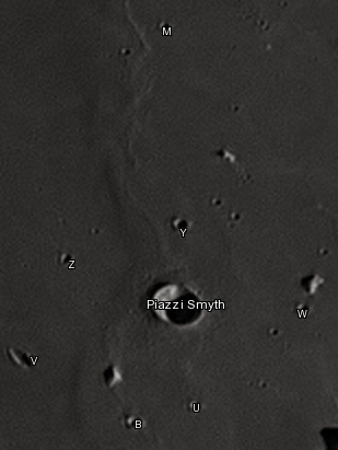 Piazzi Smyth lunar crater as seen from Earth with satellite craters labeled